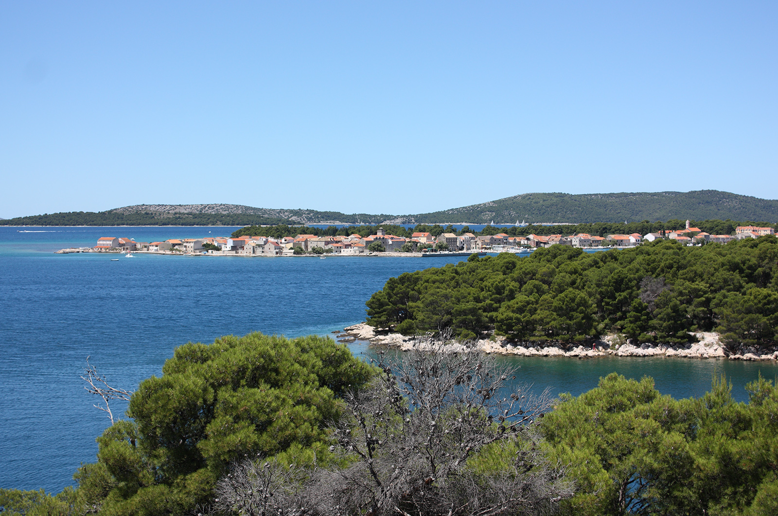 View towards the island of Krapanj next to Brodarica (taken from the mouth of the Morinje bay)